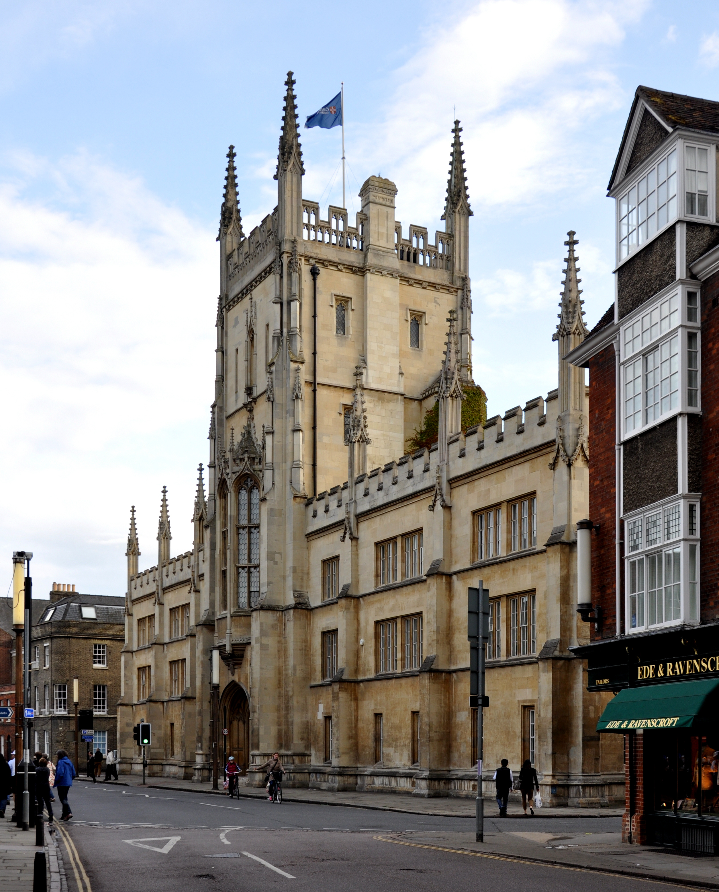 Cambridge (England), Pitt Building (built 1831–1833 as printing and publishing offices of Cambridge University Press; since 2004 a conference centre)